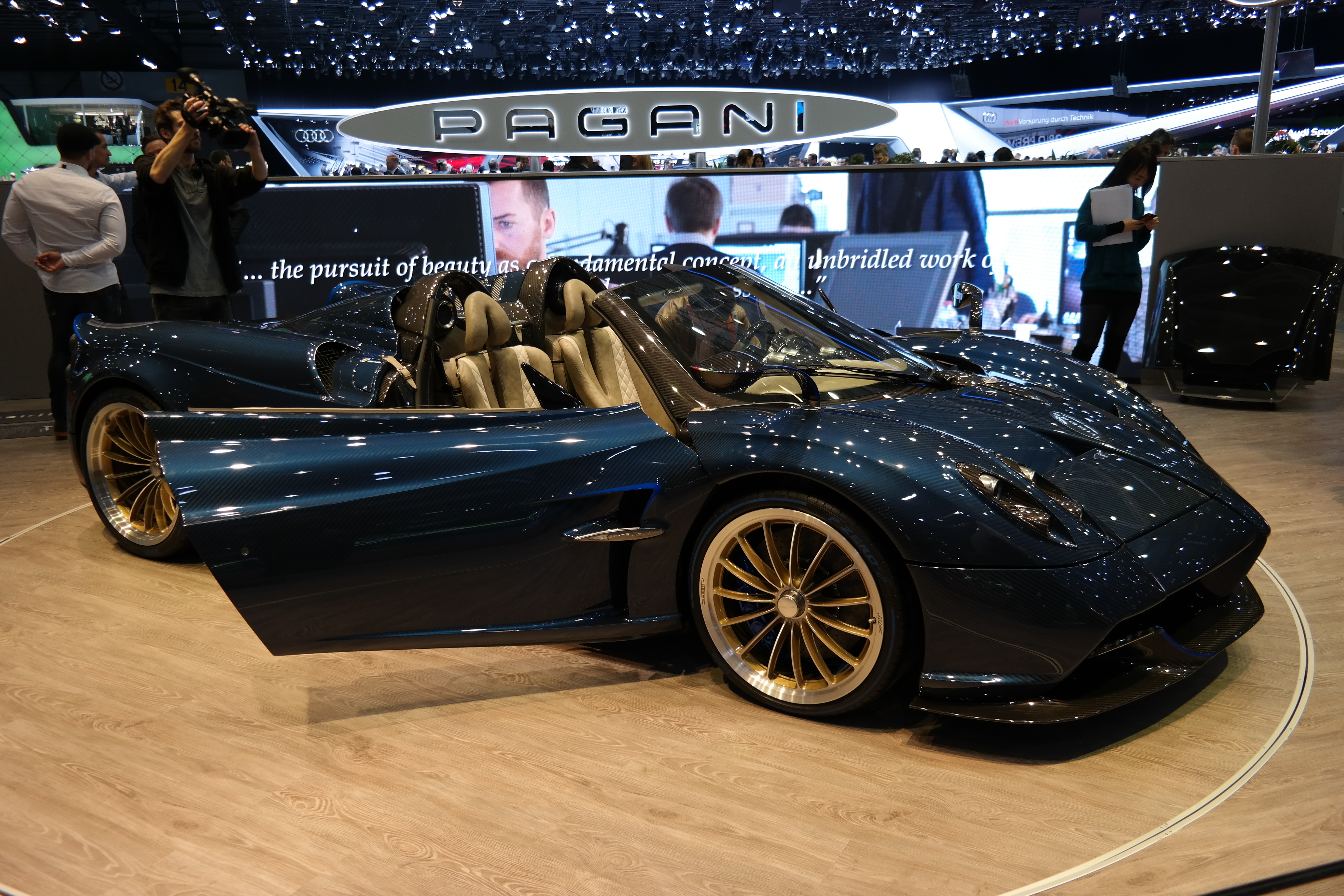 Geneva Motor Show 2017 (photo taken on the first press day)